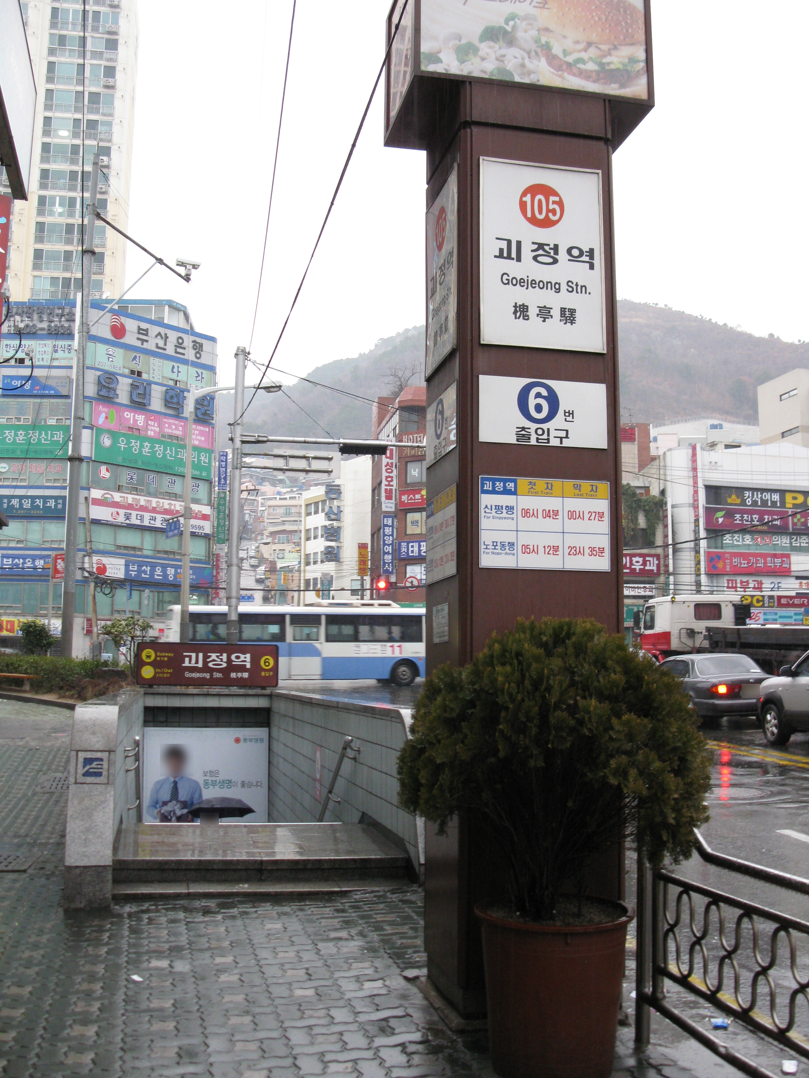 Goejeong Station no.6 entrance (Busan Subway Line 1)